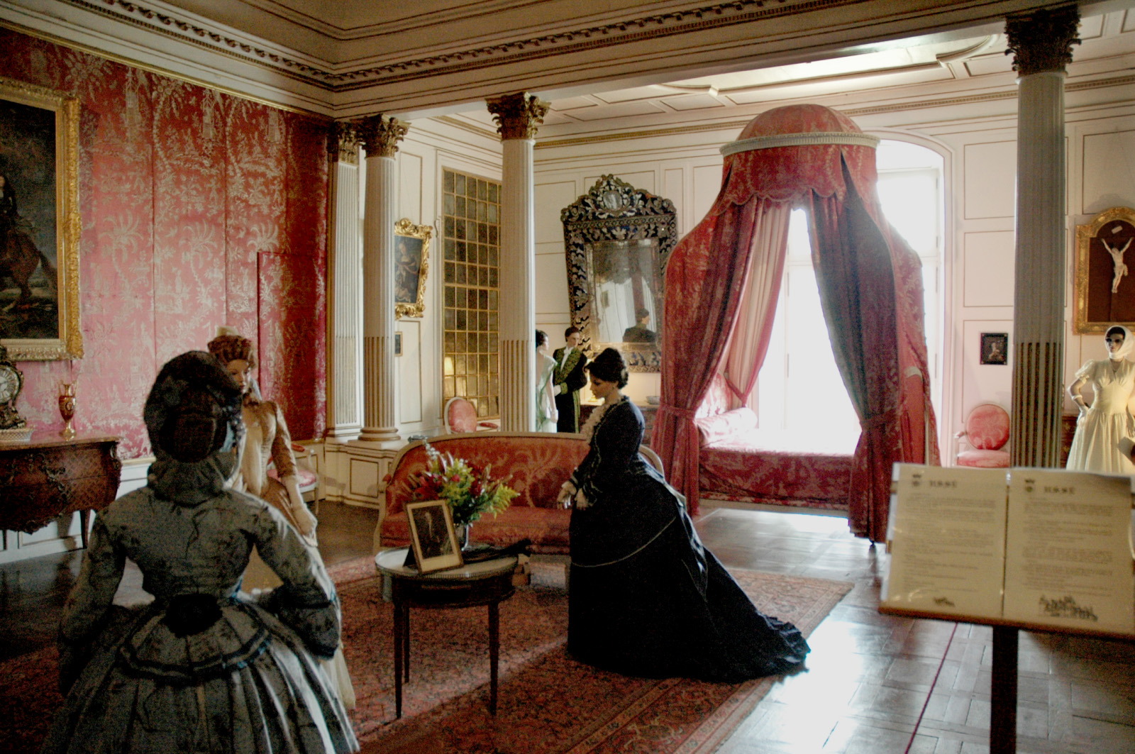 The Château d'Ussé, the king's bedroom